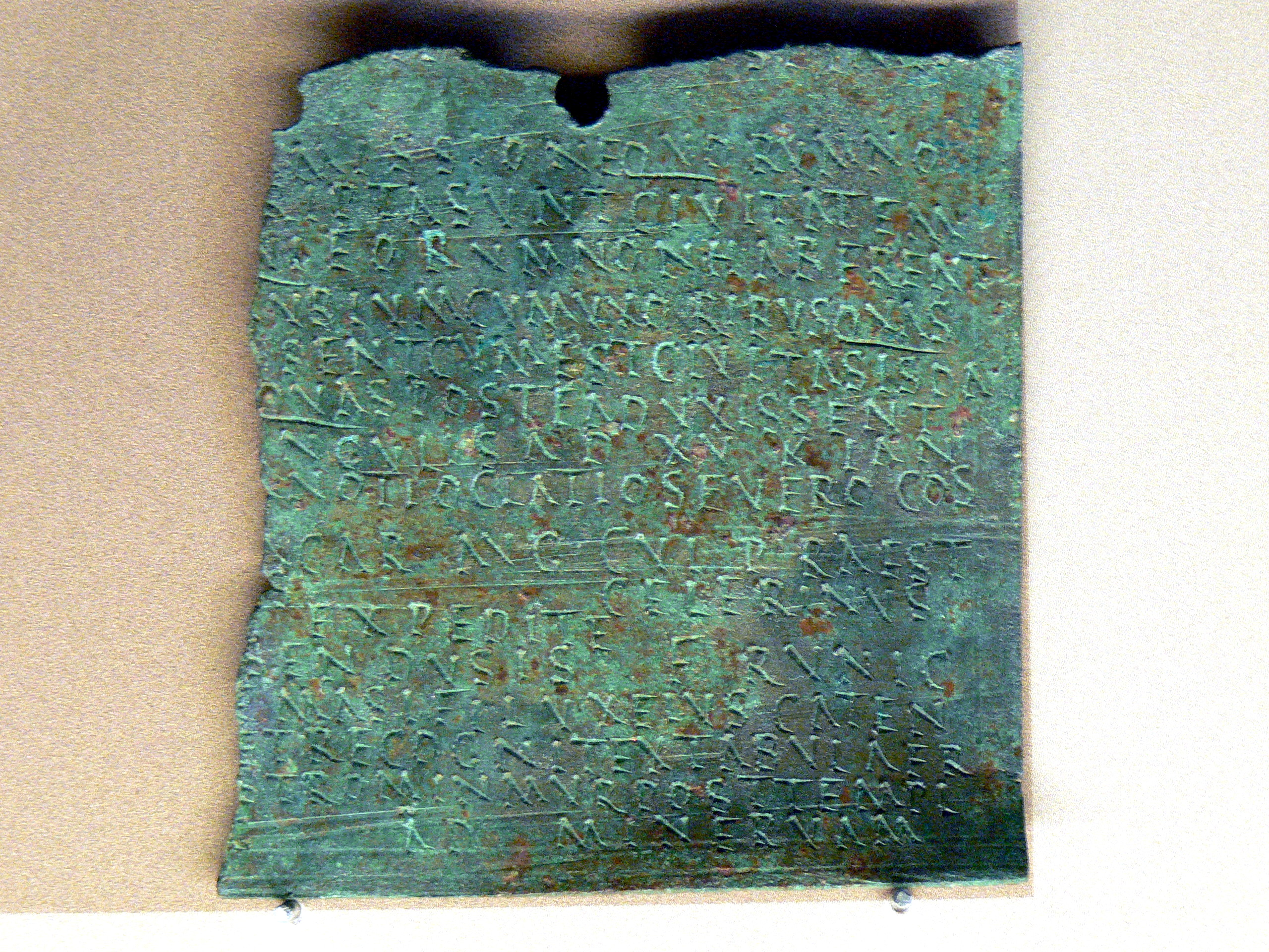 Museum Quintana - Roman department. Military demission document of the Roman soldier Victor, deployed in Quintana ( Künzing ) as member of the Cohors V Bracaraugustanorum ( from Braga in Portugal ) , dated Dec. 18th 160 AD